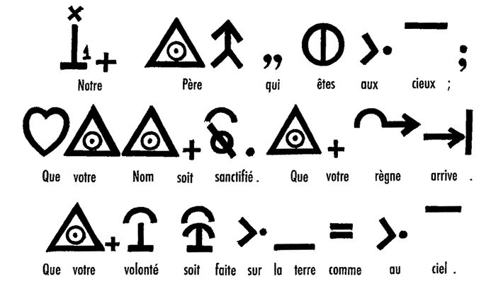 Prayer our father in Bliss language